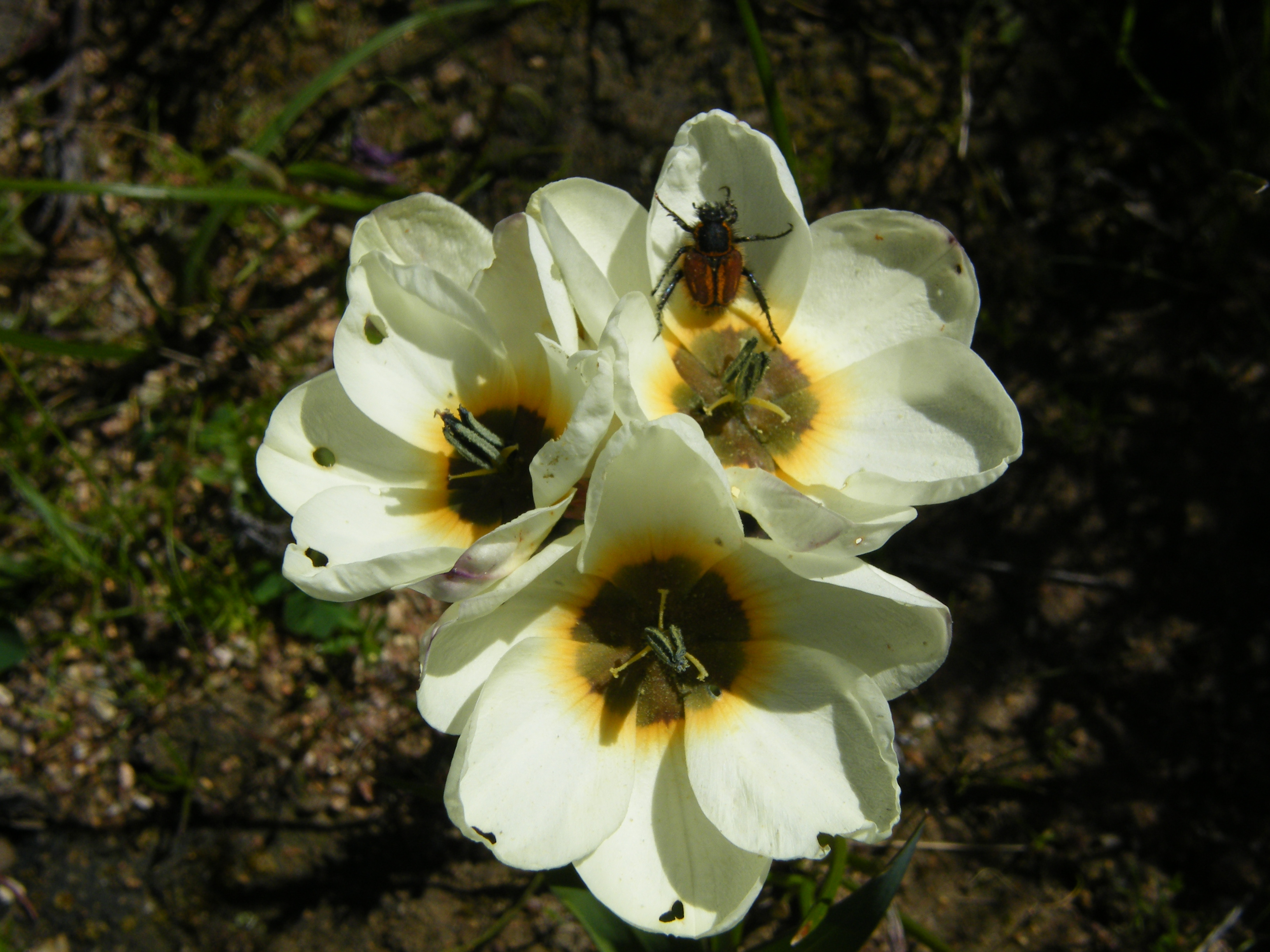 Darling Western Cape